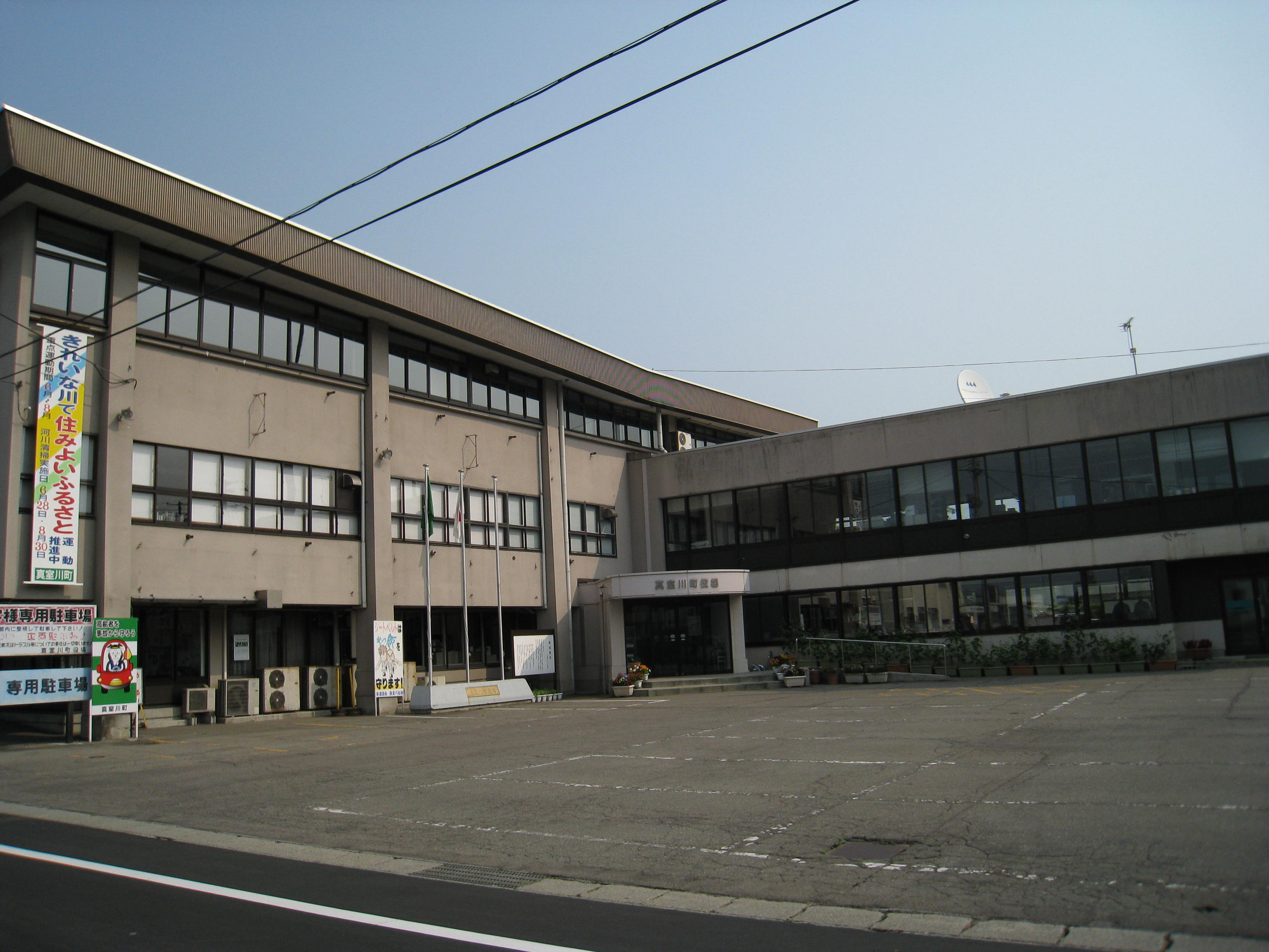 Mamurogawa CityHall